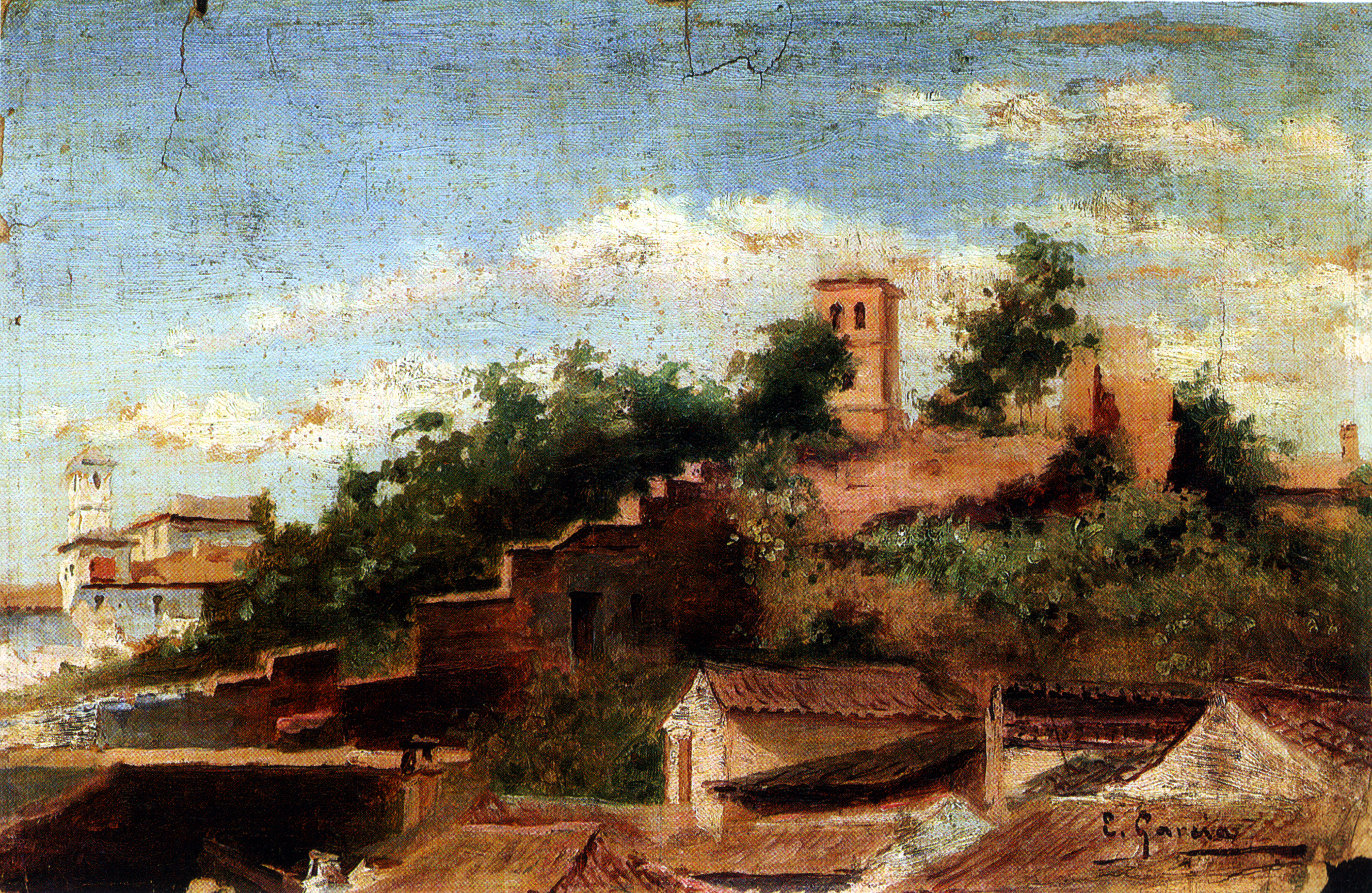 The church of San Nicolas (left) and San Miguel Alto (up right)